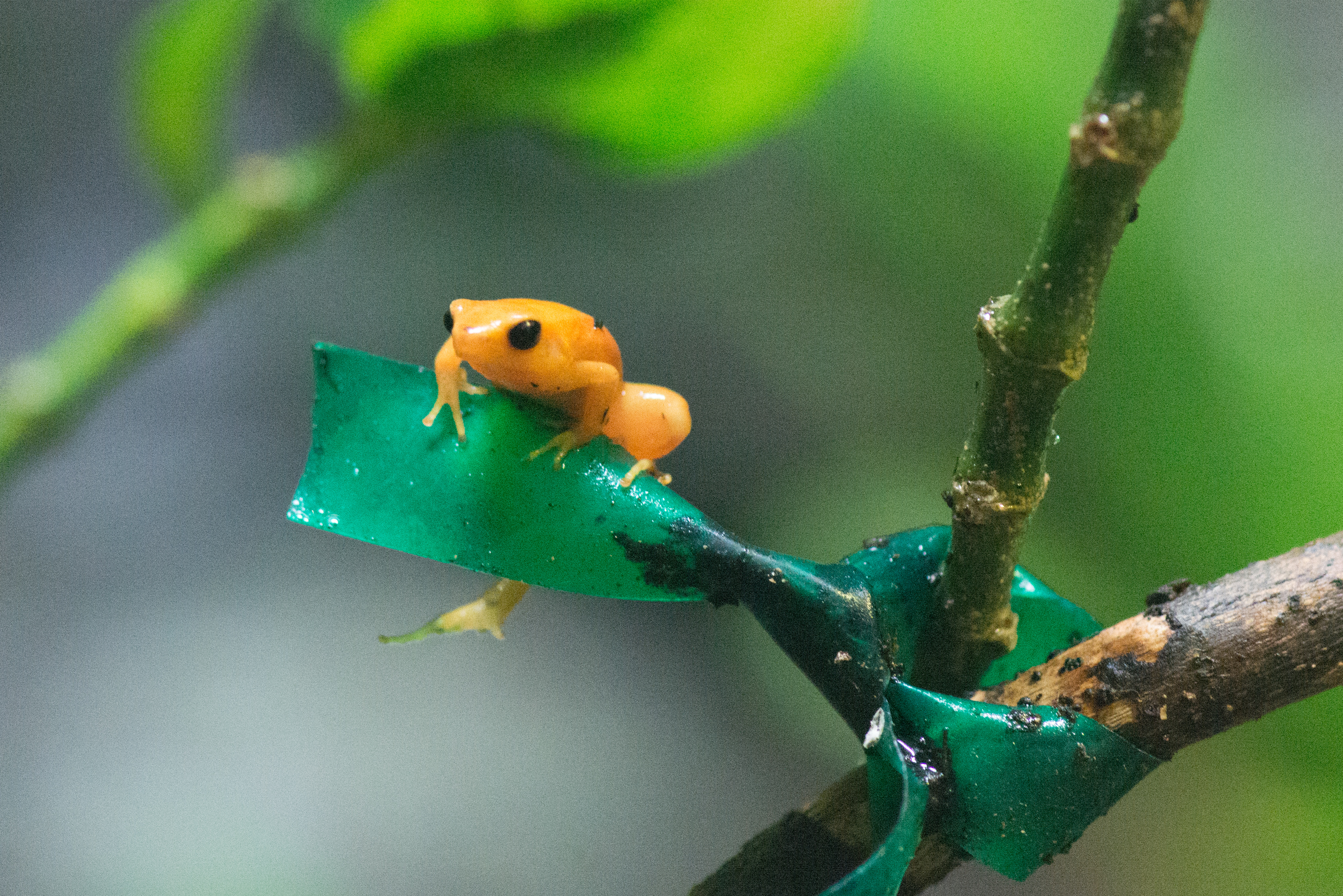 Mantella aurantiaca. There were many of this tiny frog in the exhibit, and this one decided to sit precariously on a piece of green tape or fabric tied around one of the plants. In this photo one foot had slipped off the tape.